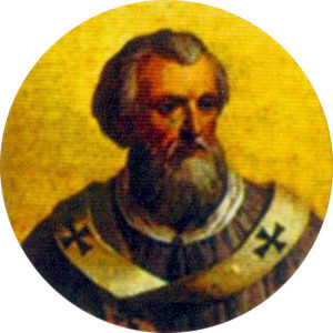 Portait of Pope John IX in the Basilica of Saint Paul Outside the Walls, Rome